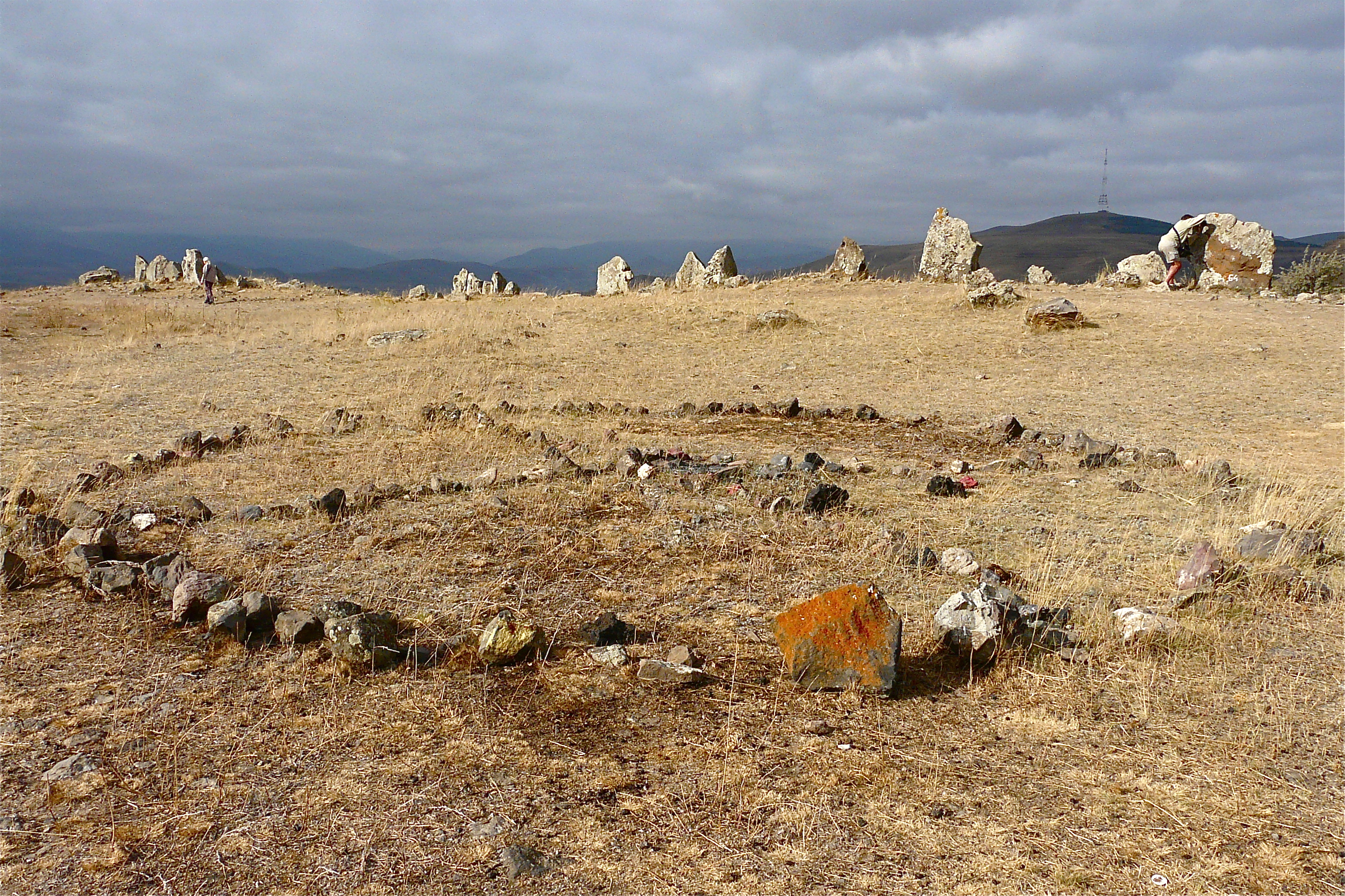 Part of the interior of Zorats Karer, a prehistoric henge